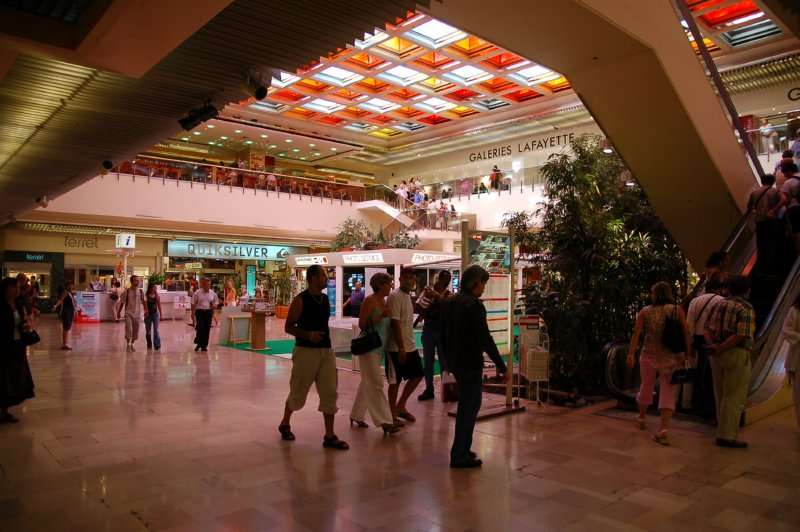 Interior of shopping mall Cap 3000, in Saint-Laurent-du-Var, Alpes-Maritimes, France.